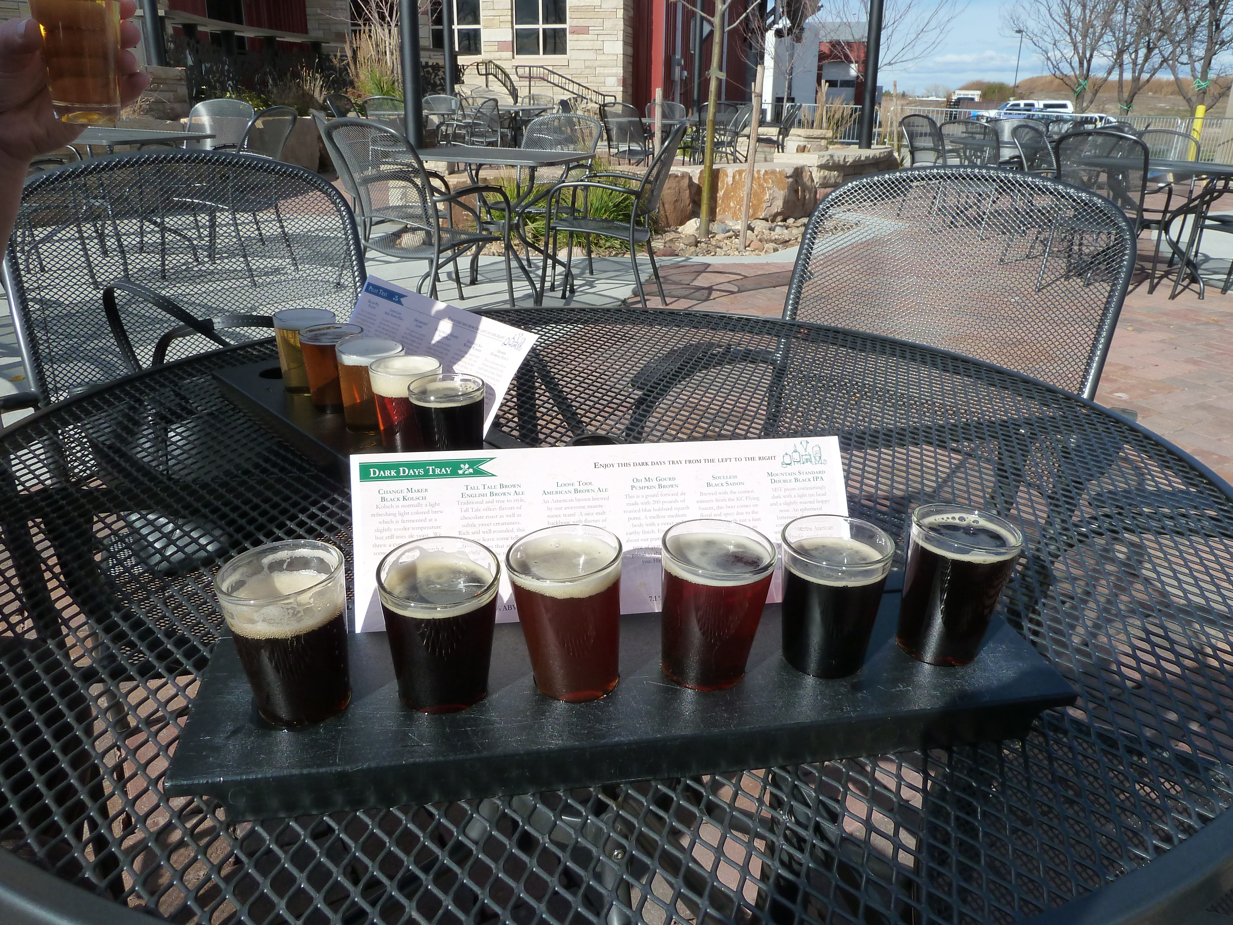 O'Dell Brewing Company, Fort Collins, CO, USA